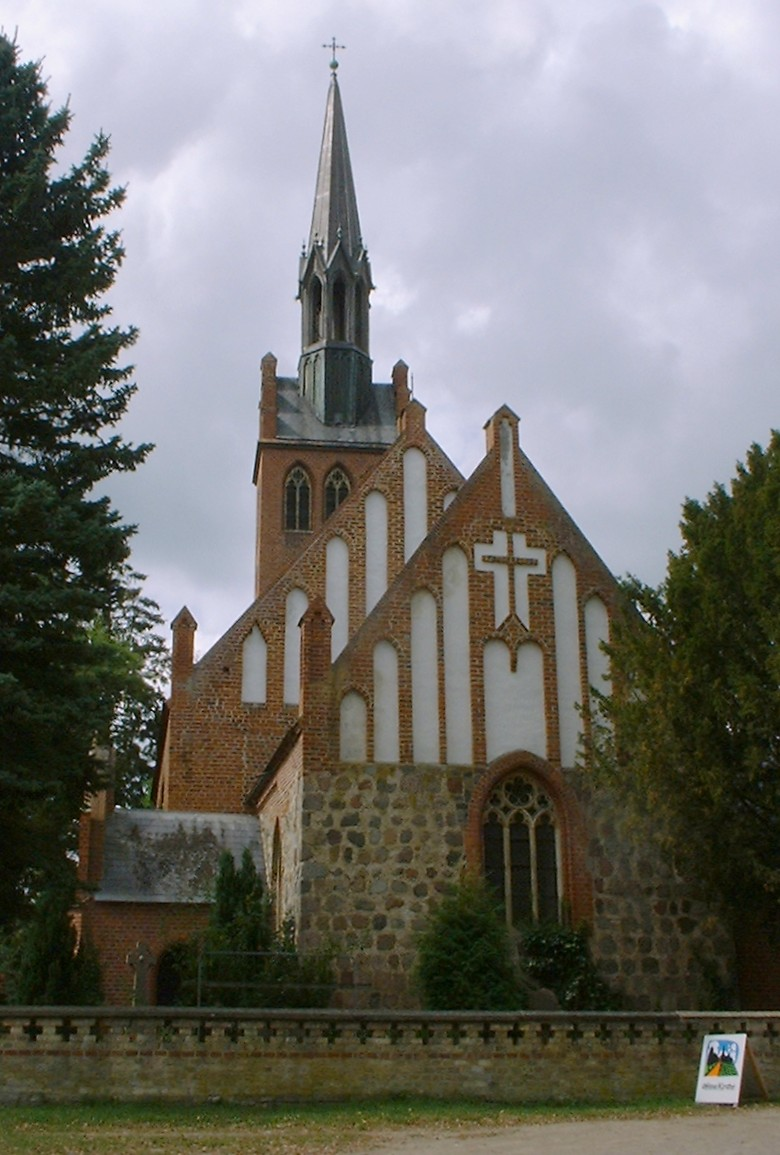 Church in Basedow in Mecklenburg-Western Pomerania, Germany